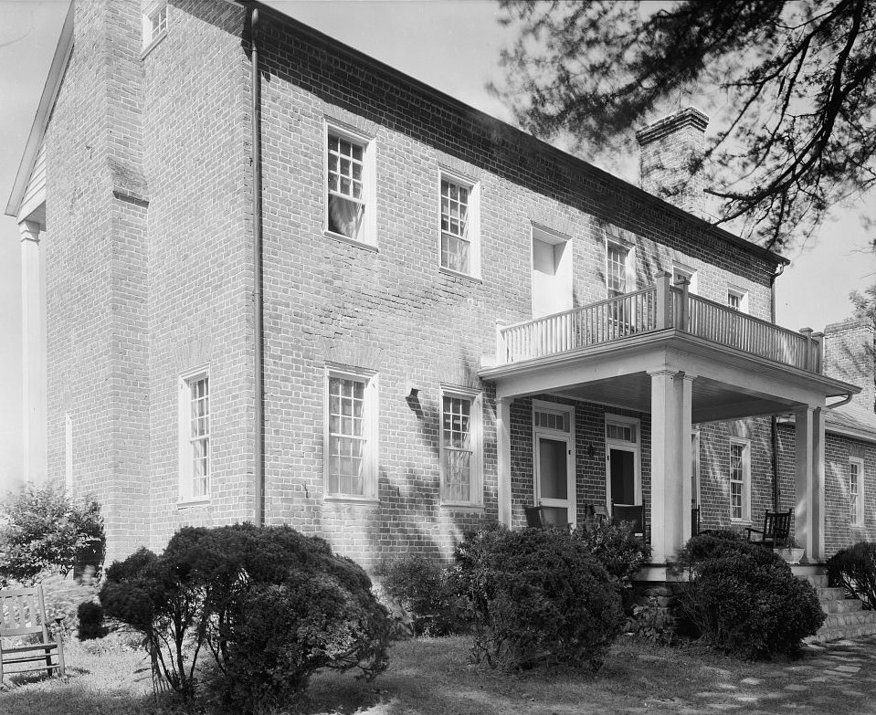 Bellevue, Morganton vicinity (Burke County, North Carolina) cropped This image is available from the United States Library of Congress's Prints and Photographs division under the digital ID csas-02240.This tag does not indicate the copyright status of the attached work. A normal copyright tag is still required. See Commons:Licensing for more information. Rights Advisory: No known restrictions on publication. This work is in the public domain in the United States because it is a work prepared by an officer or employee of the United States Government as part of that person’s official duties under the terms of Title 17, Chapter 1, Section 105 of the US Code. Note: This only applies to original works of the Federal Government and not to the work of any individual U.S. state, territory, commonwealth, county, municipality, or any other subdivision. This template also does not apply to postage stamp designs published by the United States Postal Service since 1978. (See § 313.6(C)(1) of Compendium of U.S. Copyright Office Practices). It also does not apply to certain US coins; see The US Mint Terms of Use. This file has been identified as being free of known restrictions under copyright law, including all related and neighboring rights. Object location35° 46′ 55″ N, 81° 42′ 33″ W